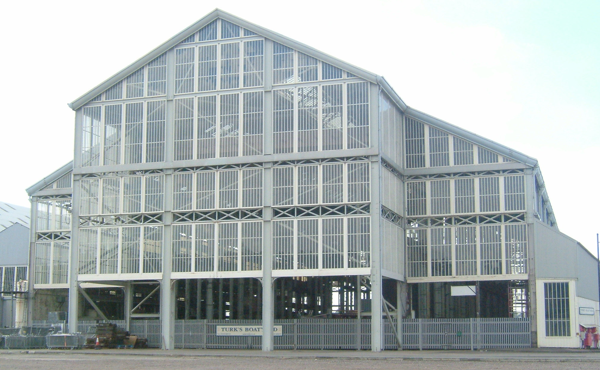 Chatham Dockyard, Kent,England has the finest collection of 18th and 19th century naval dockyard buildings many of which are scheduled as ancient monuments. No 7 covered slip behind. Designed by Col G.T.Greene an early example of a metal trussed roof. HMS Ocelot was built here.